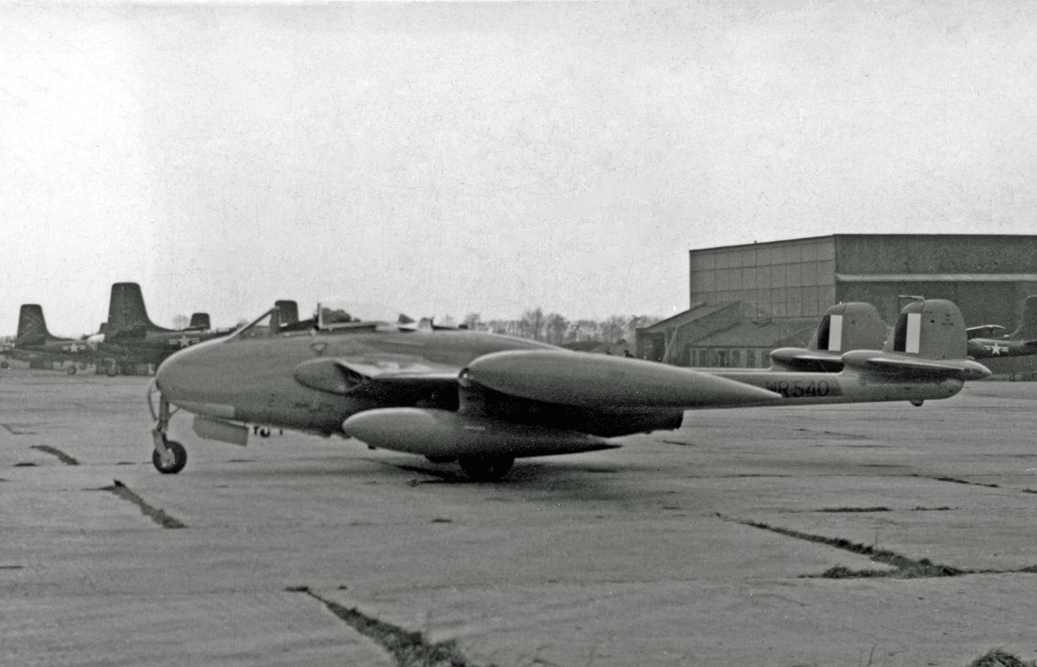 De Havilland Venom FB.4 WR540, newly built, at Manchester Airport